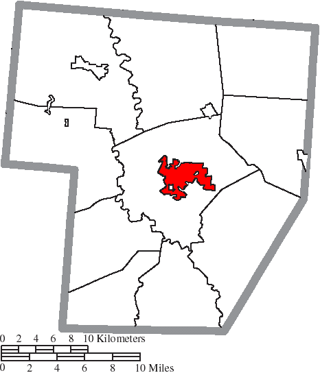 Map of the municipal and township boundaries of Fayette County, Ohio, United States, as of the 2000 census, with the location of the city of Washington Court House highlighted. Township borders are shown only in unincorporated areas in order to differentiate incorporated and unincorporated areas more clearly.